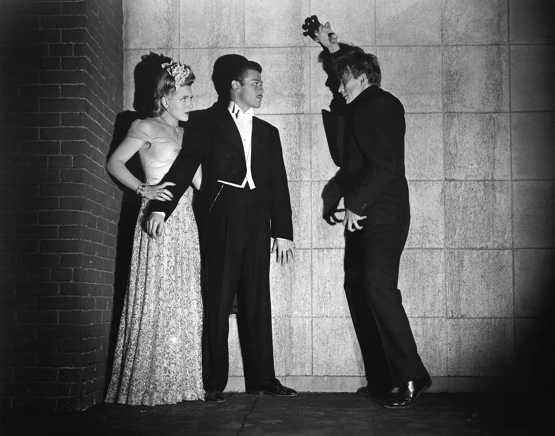 Left to right: Evelyn Ankers, Turhan Bey, and David Bruce in the film The Mad Ghoul (1943) - publicity still